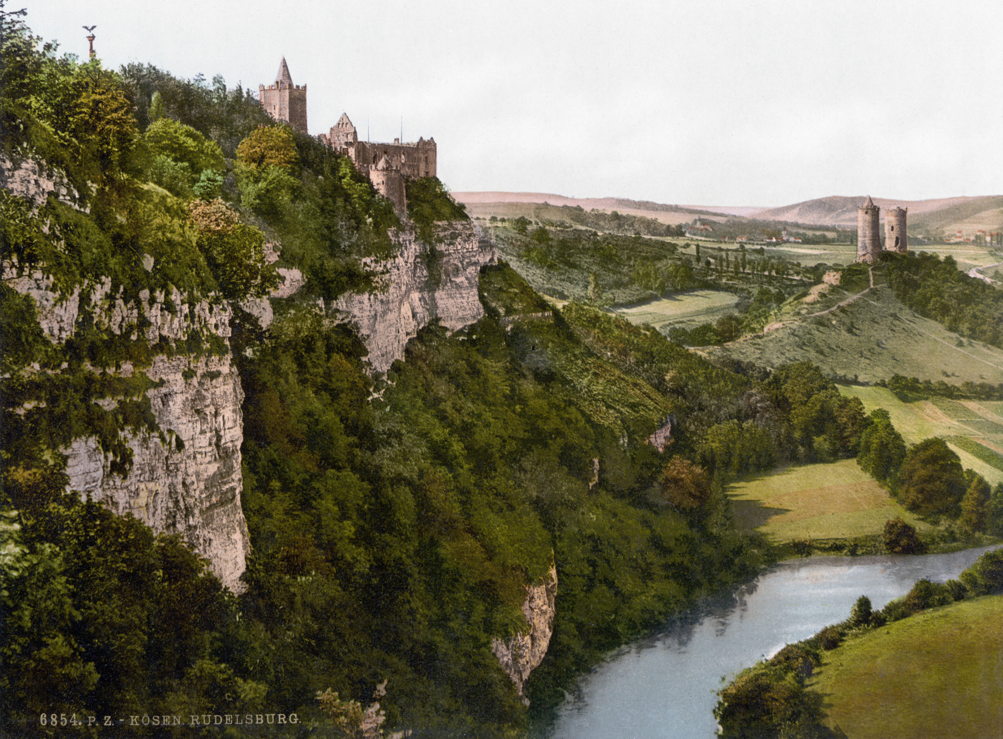 Rudelsburg - between ca. 1890 and ca. 1900